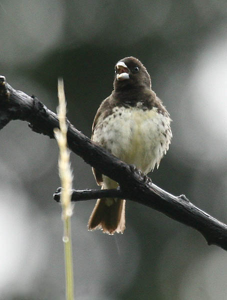 Yellow-bellied Seedeater (Sporophila nigricollis). A male SW of Quito, Ecuador.